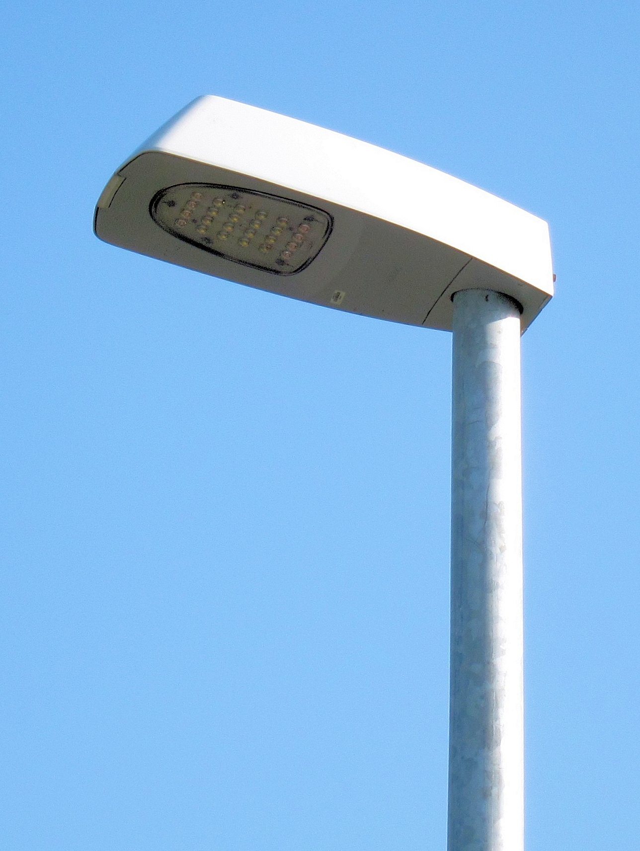 Generic LED streetlight from Baden-Wuerttemberg, Germany. This light does not produce light-pollution. Manufacturer: Philips